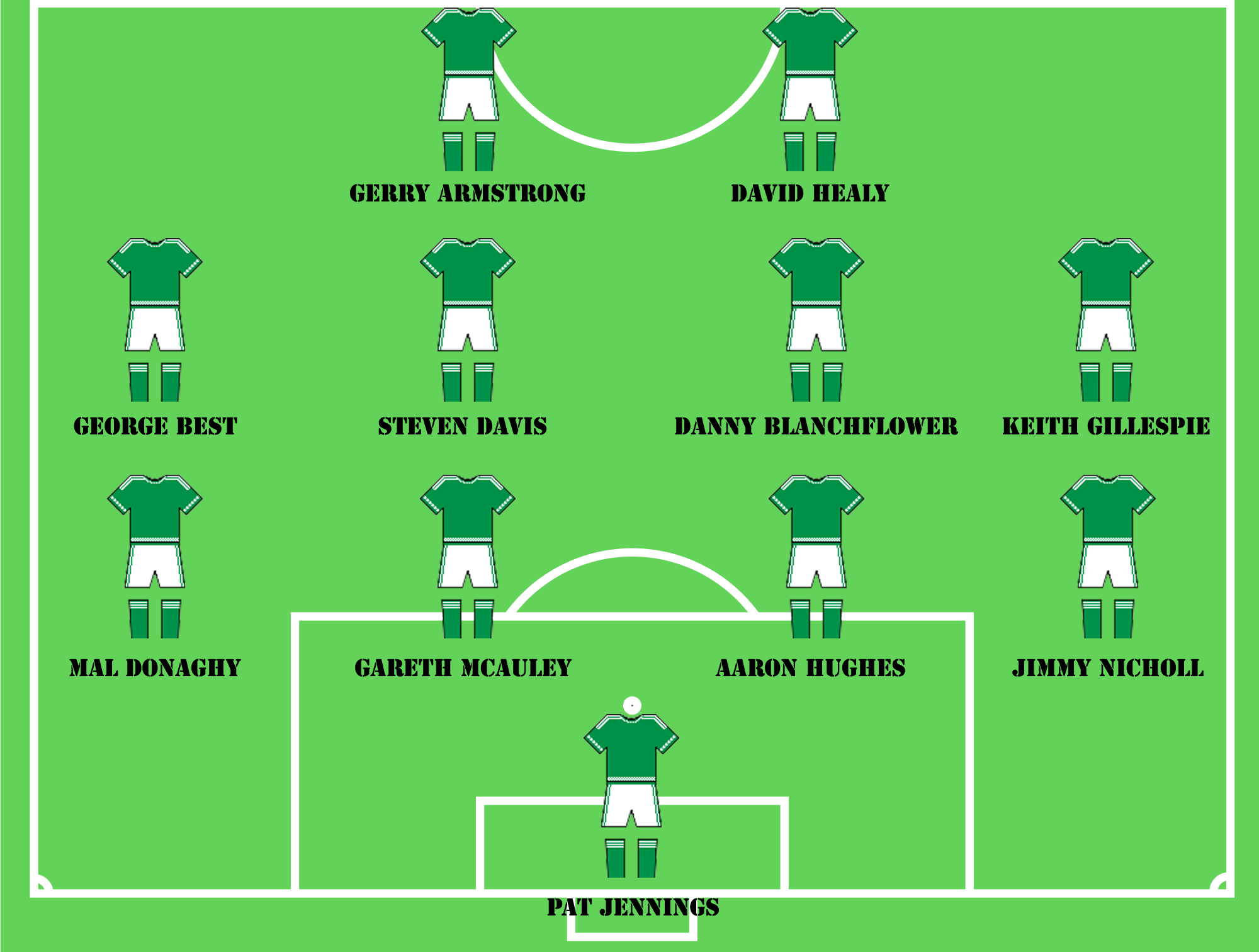 Irish FA Greatest Ever Team First XI